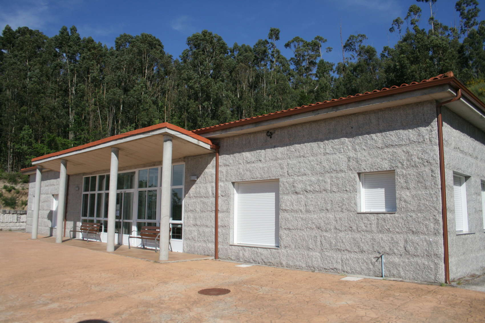 Medical center in A Notaria. Padrenda (Spain)